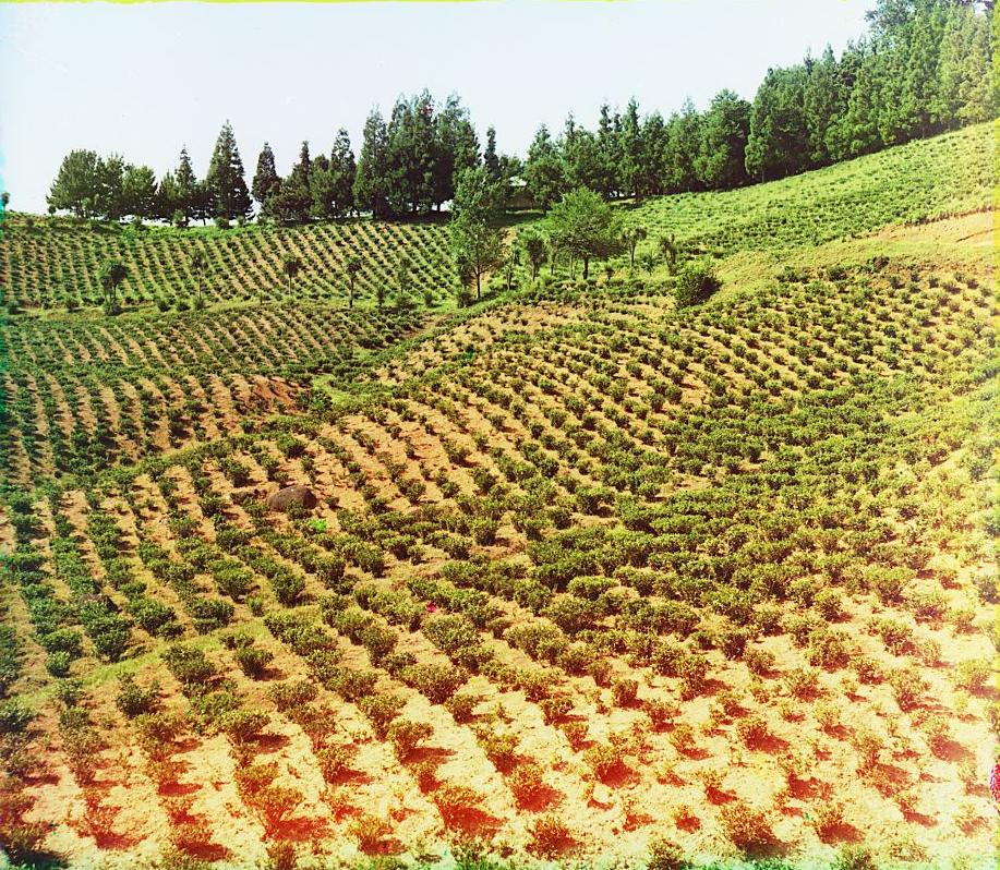 Tea plantations. Chakva.